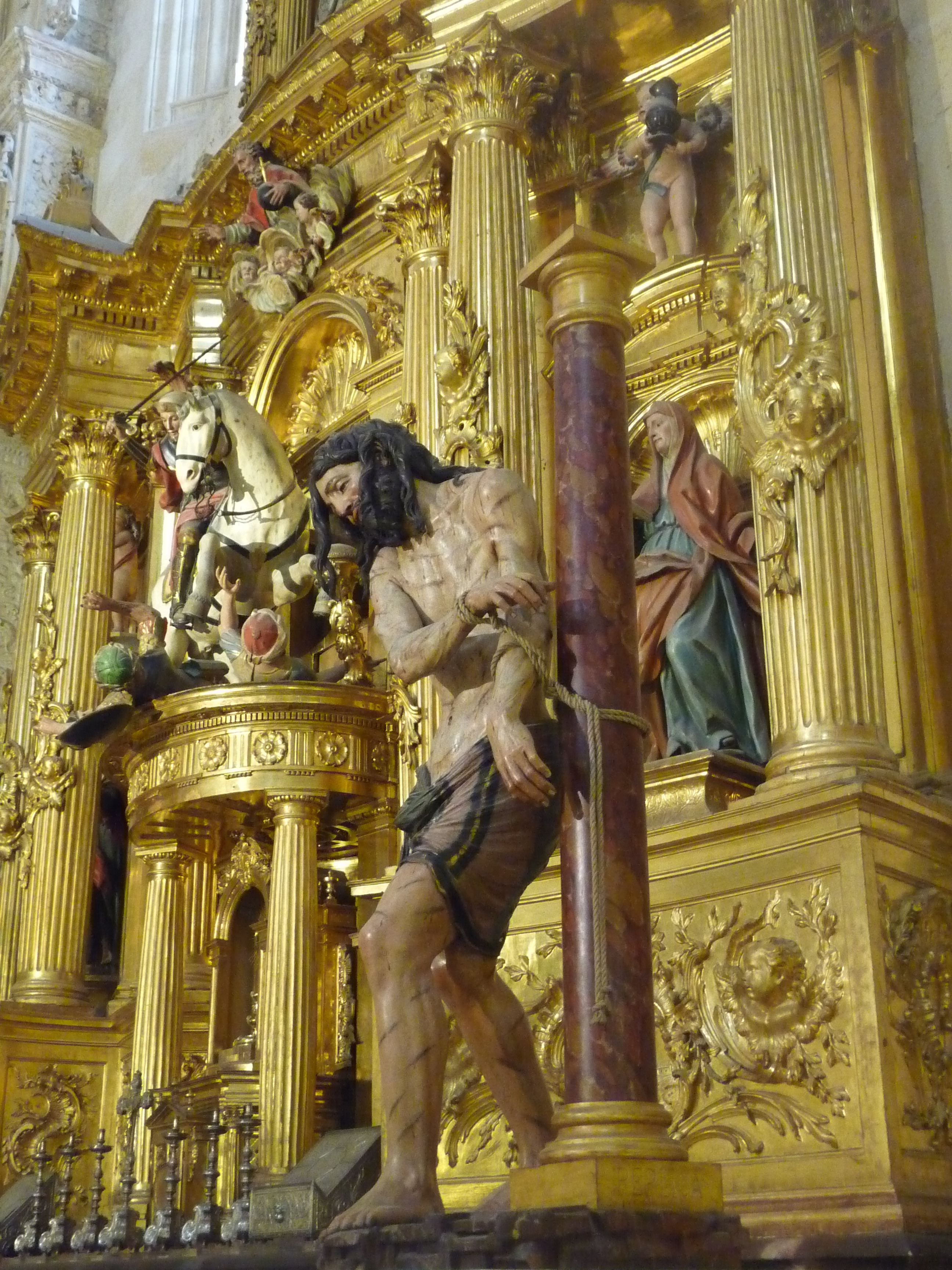 Burgos Cathedral.